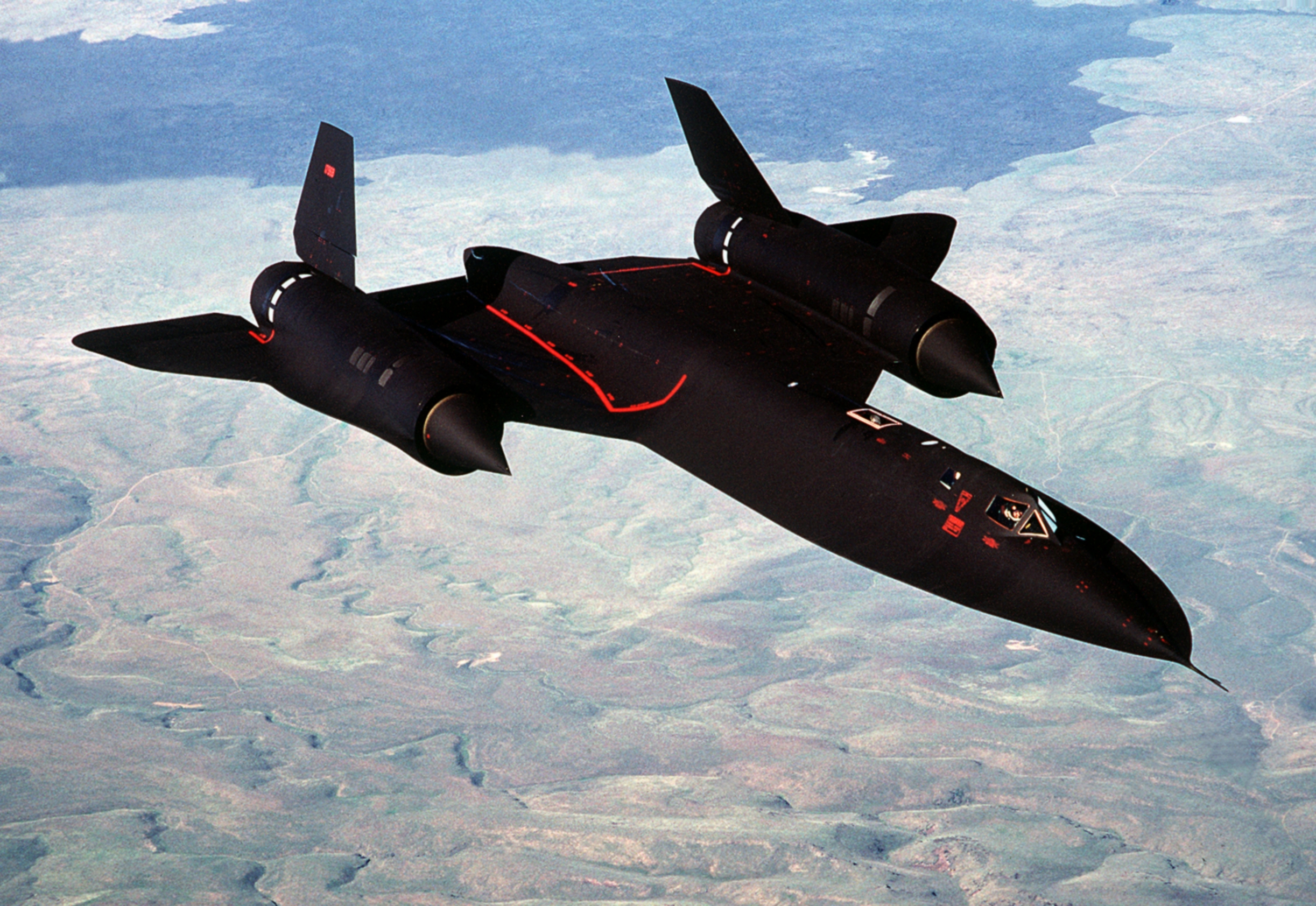 A U.S. Air Force Lockheed SR-71A Blackbird from the 9th Strategic Reconnaissance Wing near Beale Air Force Base, California (USA).